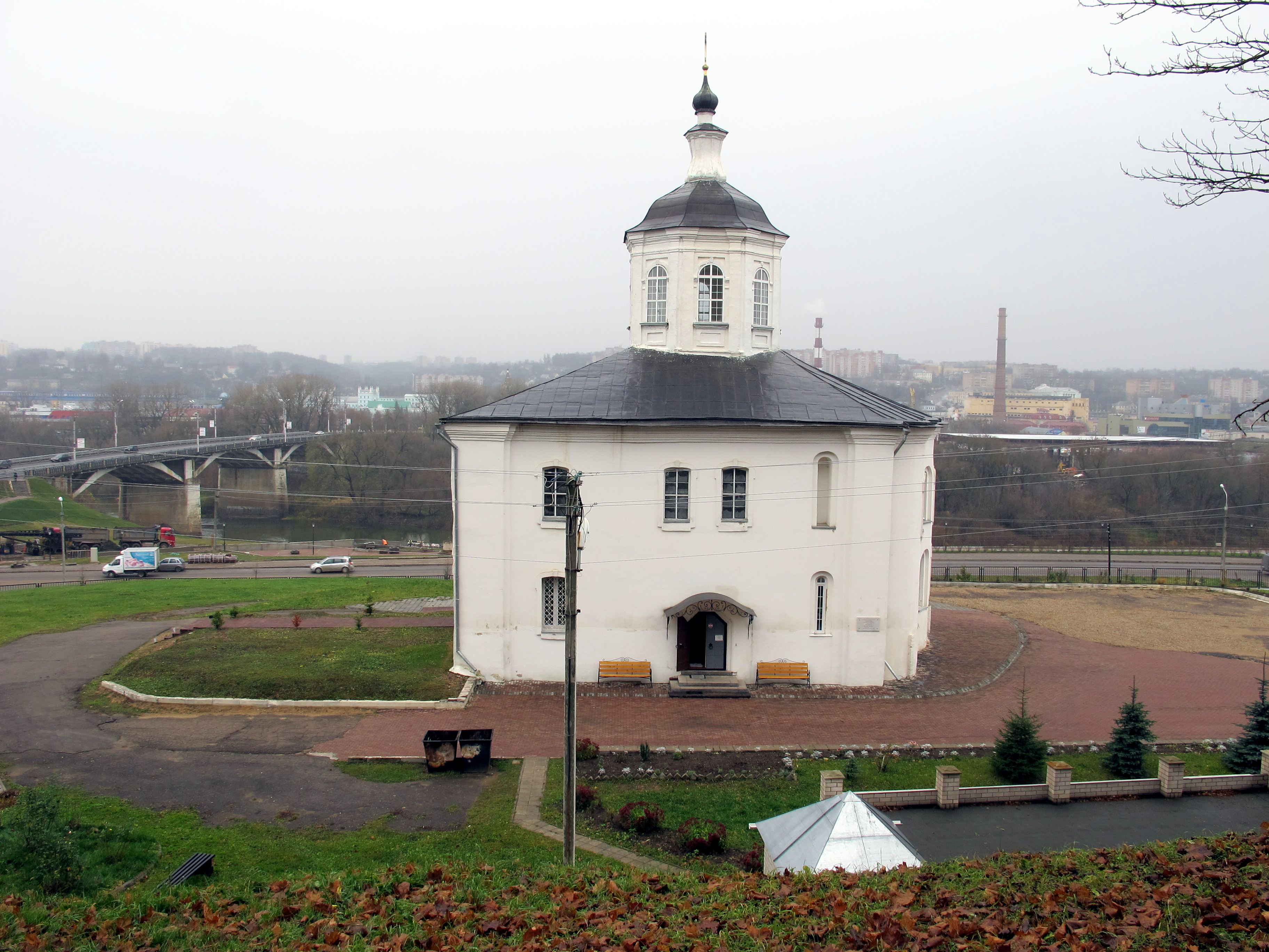 Saint John the Evangelist Church (Smolensk; 2013-11-08)